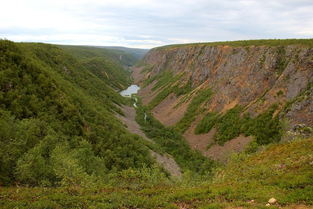 Hiking in Kevo Strict Nature Reserve, Utsjoki, Lapland in Finland